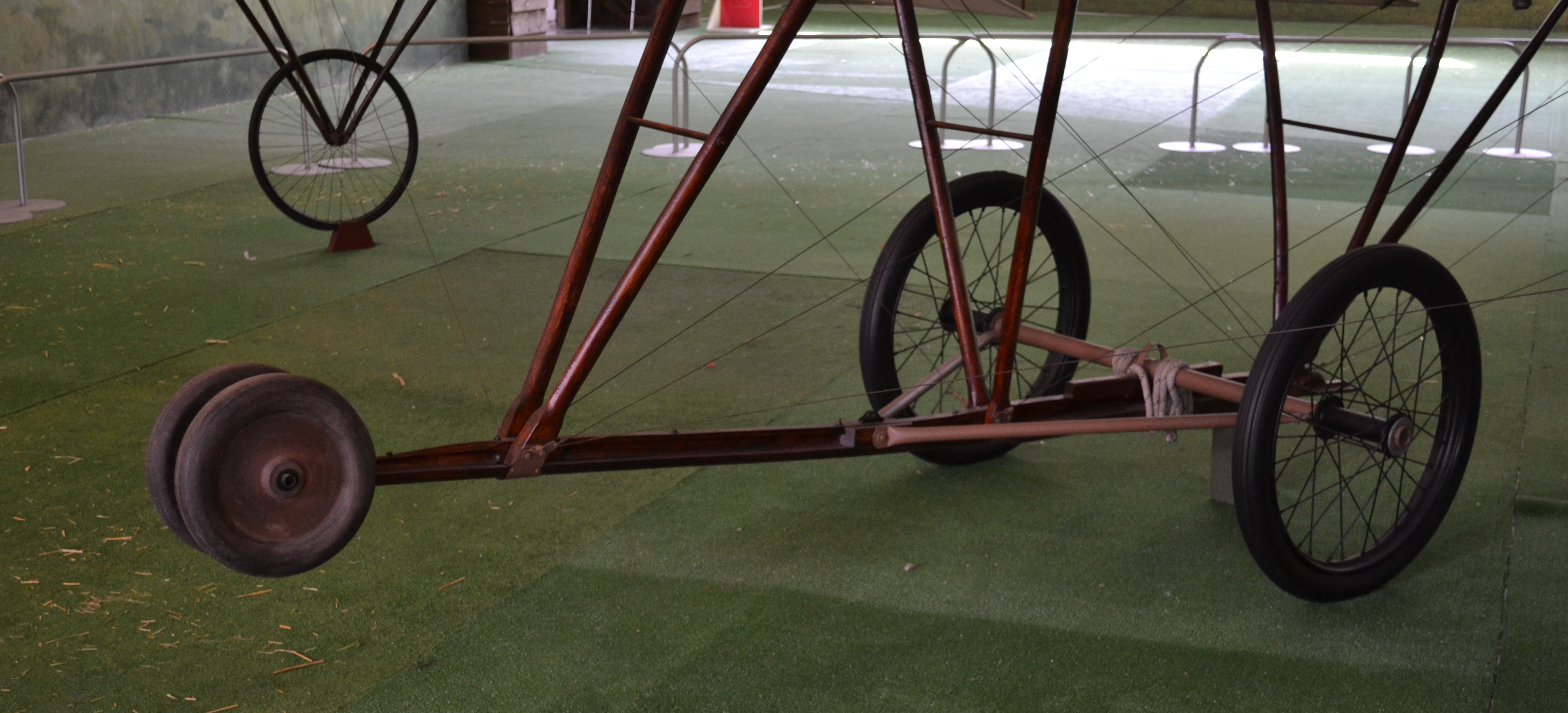 A detail of the landing gear of the Caproni Ca.1 Italian pioneer biplane, on display at the Volandia aviation museum in the province of Varese.